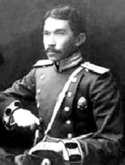 Asfendiarov Sanjar